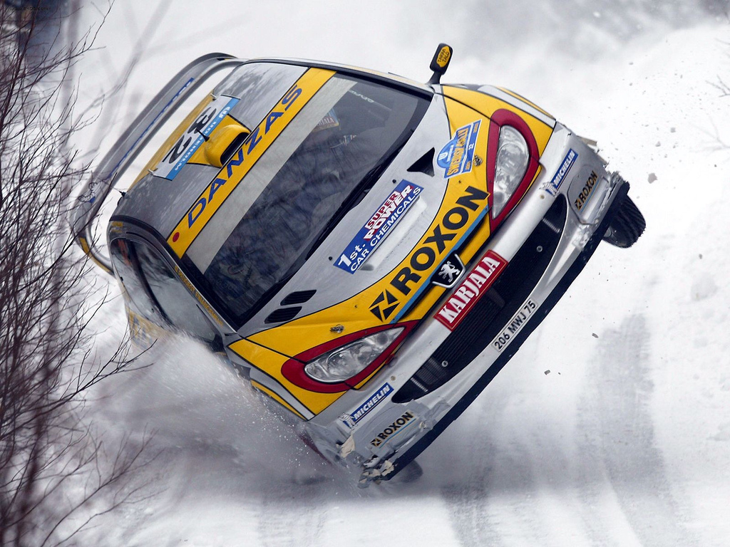 Juuso Pykälistö (FIN) in his Peugeot 206 WRC during the 2003 Swedish Rally.